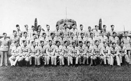 No. 3 Service Flying Training School, Amberley, Queensland. Group portrait of aircrew trainees. Identified, left to right: back row: 402887 William Sprott; J Anscomb ?(Anscombe); 402764 Francis Leonard Sismey (later died 20 May 1945); 402855 Peter George Faux; M Brill?; 400502 James Maxwell Brady (later 15 OTU RAF, killed 16 January 1942); N? Green; 404786 Noel Messines Toohill (later 207 Squadron RAF, killed 9 January 1942); 402991 James Gordon Werrin; 404702 Hamilton Lewis Maddison (later 217 Squadron RAF, died 30 April 1943); 404700 Noel Percival Hawke; 402848 John Terry Bray; 404623 William Wrixon Boylson (later 643 Squadron RAF, DFC and Bar, killed on 25 June 1944). Second row: 402835 Philip Goodrich Adams; J R? Brown; 404688 Sergeant John Sivyer "Siv" Turnock (later 460 Squadron, killed on operations 13 March 1942); 404701 John Francis Walsh (later 460 Squadron, killed 1 June 1942); ? K A Hearn; 402880 John Milton Pilcher (later DFC and Bar); 404710 Basil James McSharry; 402850 Robert Lachlan London; M Moore (possibly 404111 Molesworth Gerard Moore); D I Fraser; 402945 Arthur William Doubleday (later DSO DFC); 404610 Colin Braidwood Walker; 400715 Vivian Lugton Jackman (later 55 Operational Base Unit, killed 7 May 1943); R C Allcock. Front row: G G Friend; 402894 Robert Lichfield Tresidder (later 460 Squadron, killed 17 February 1942); 402885 Leslie Milton Shephard (later 460 Squadron, killed 29 April 1942); 402511 James J Leahy (later AFC); 402790 Albert George Declerck (later 462 Squadron, killed 23 October 1942); 402857 Benjamin John Gibbons; Sommerville; 402415 Jack Marshall Winchester Stronach; 402897 James Henry Ware (later 460 Squadron, killed 17 February 1942); 402996 Stuart Kennedy Scott (later 32 Squadron RAAF, killed 26 January 1943); 402760 Frederick James Breen (later 460 Squadron, killed on 27 July 1942); 402873 Esmond Mayne McKern; 400742 Arthur Leslie Newton; John? W McKenzie.